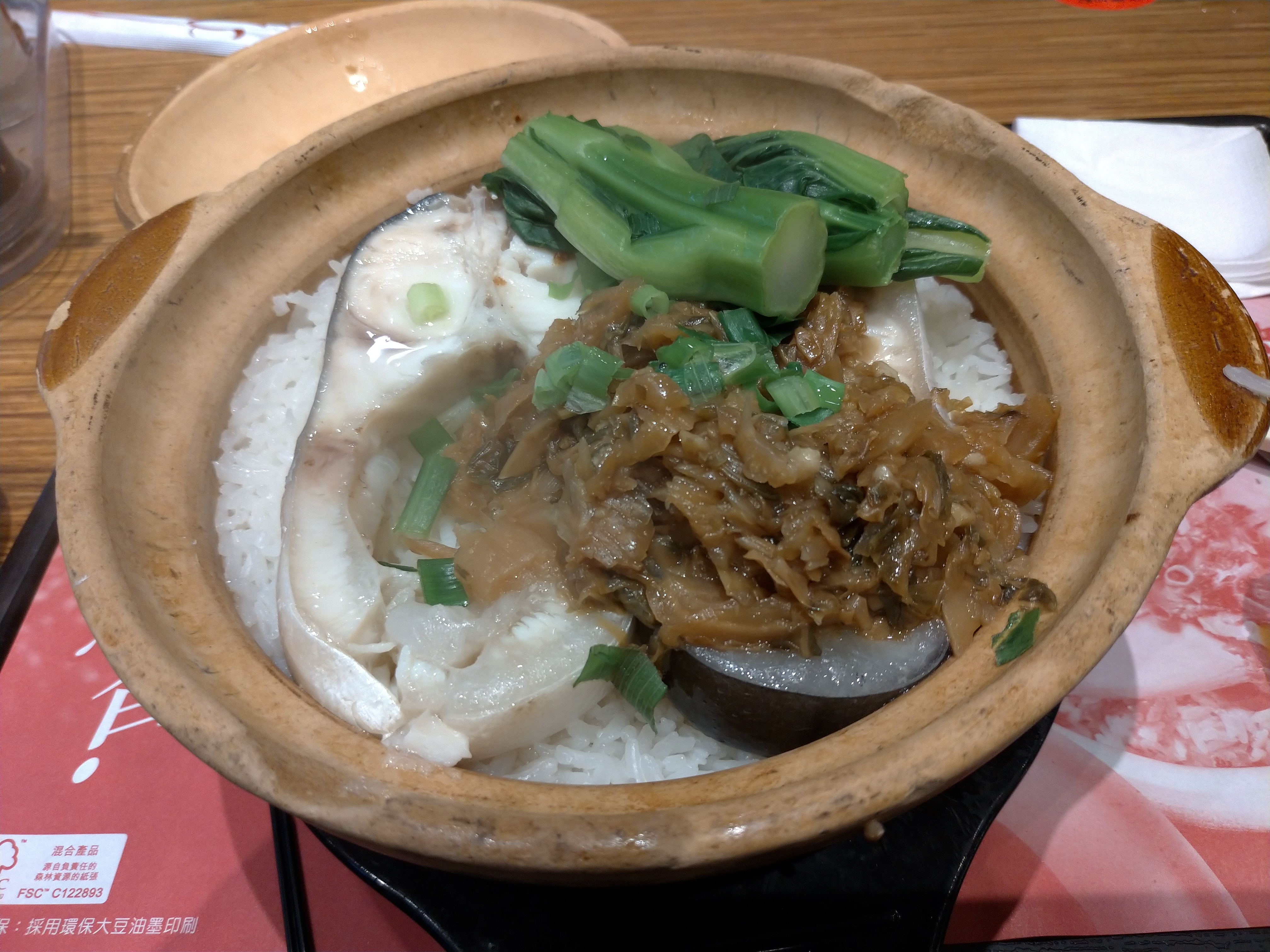 Claypot rice at a fast food restaurant in HK.